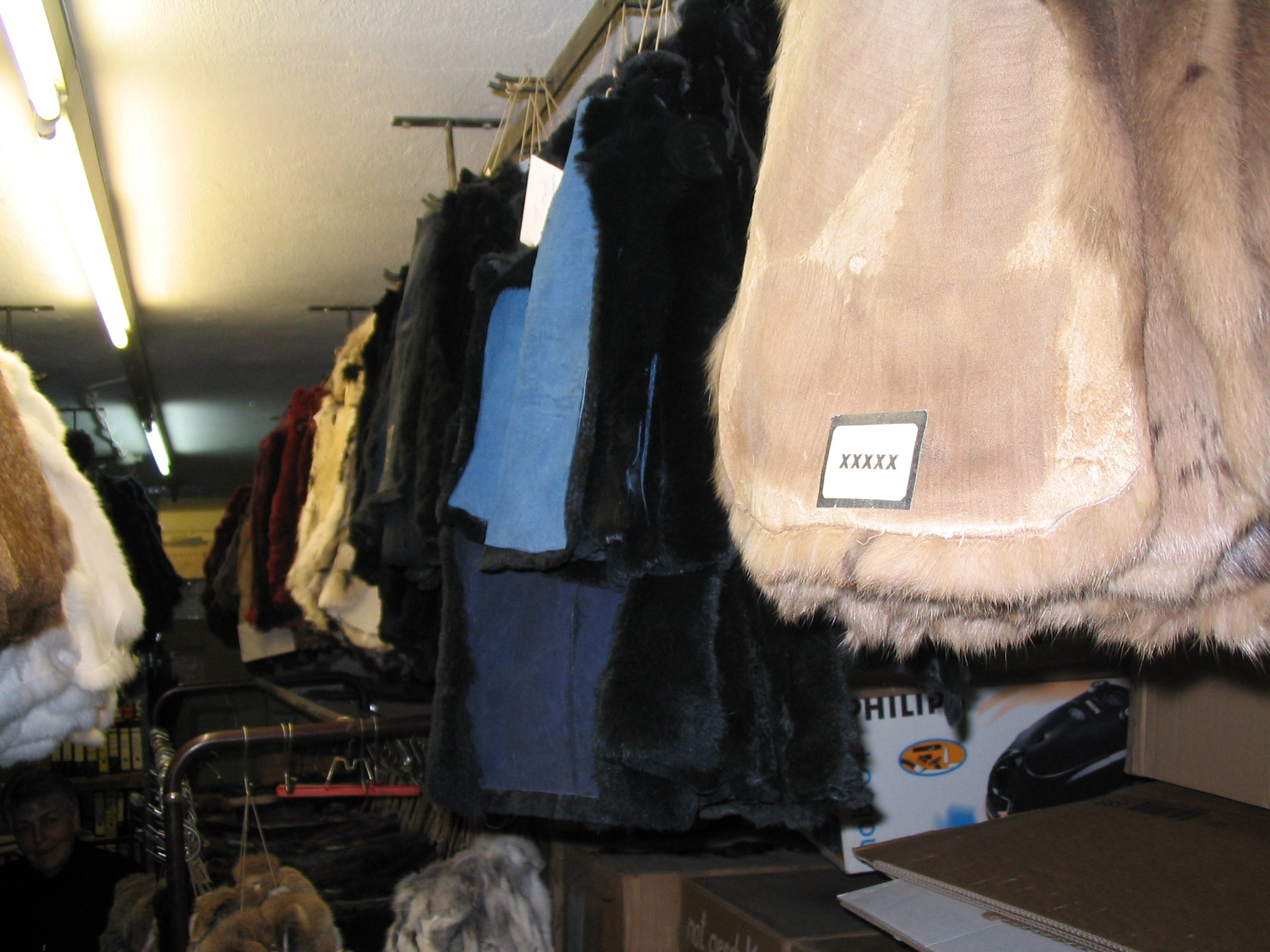 Rabbit skins